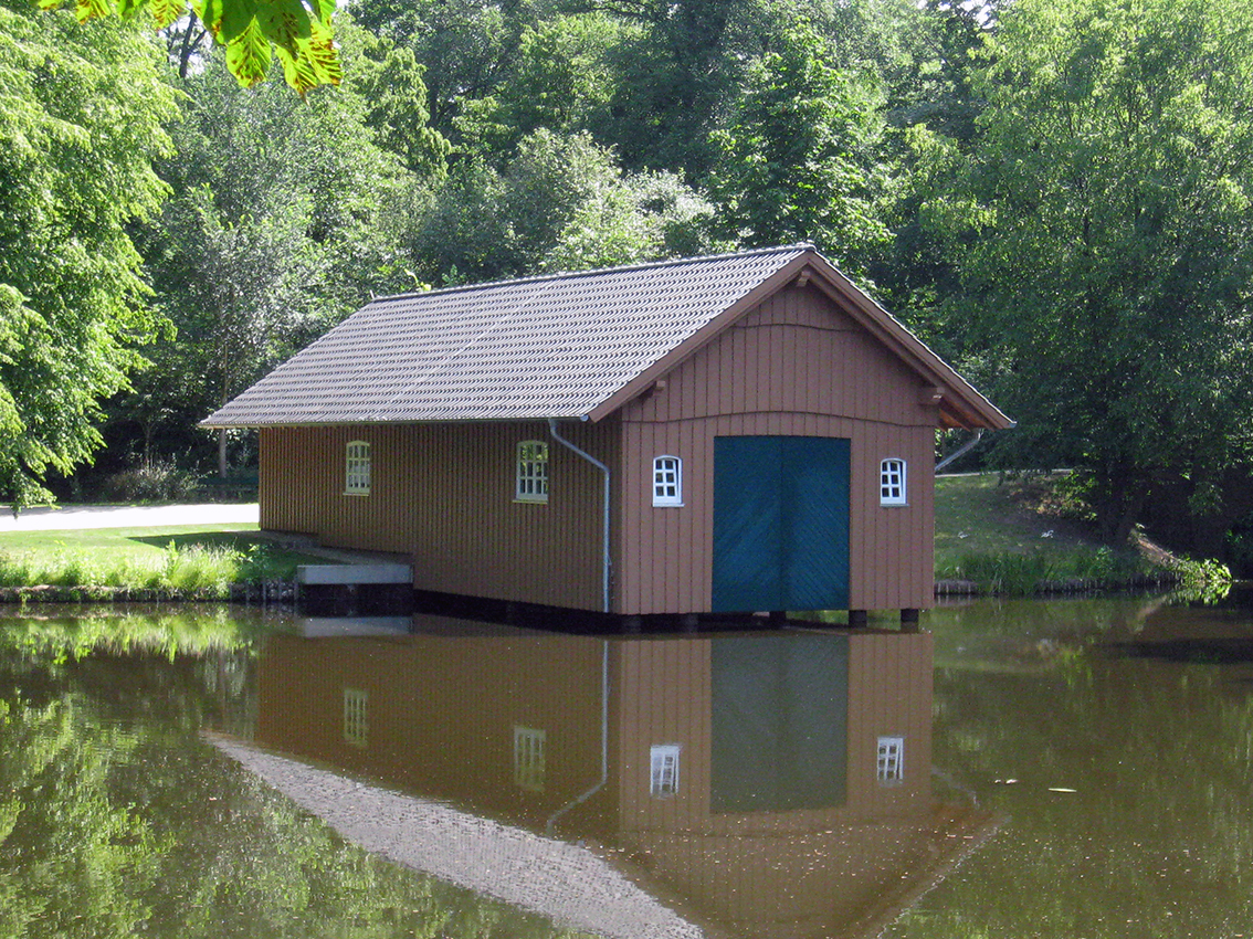 Boathouse for the motorboat Marie at the Meiereisee in the Bürgerpark in Bremen, Germany.